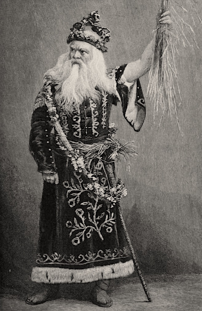 Edwin Forrest in the role of King Lear